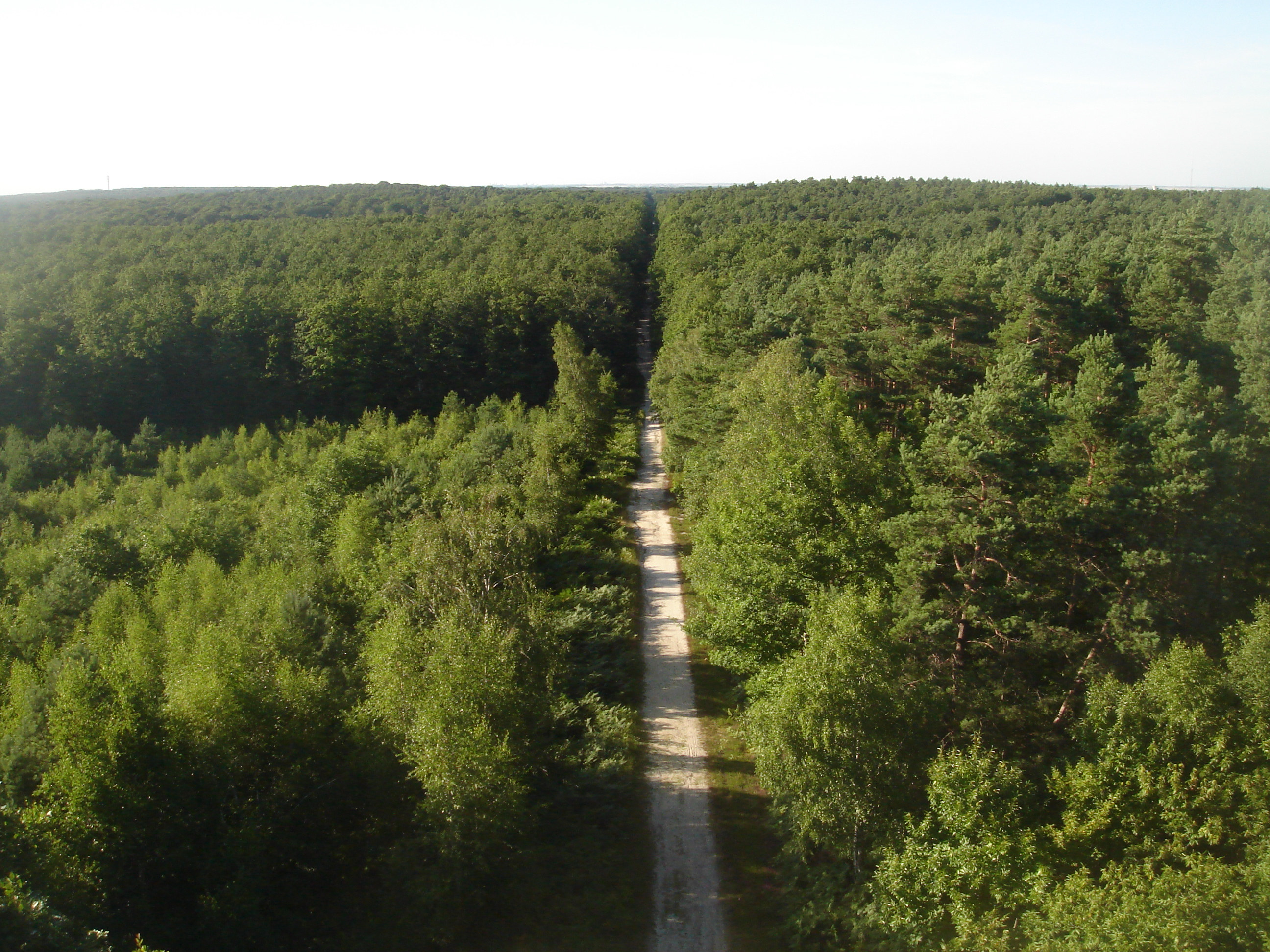 The Forest or Orléans from the Caillettes Observatory in Nibelle, Loiret, France